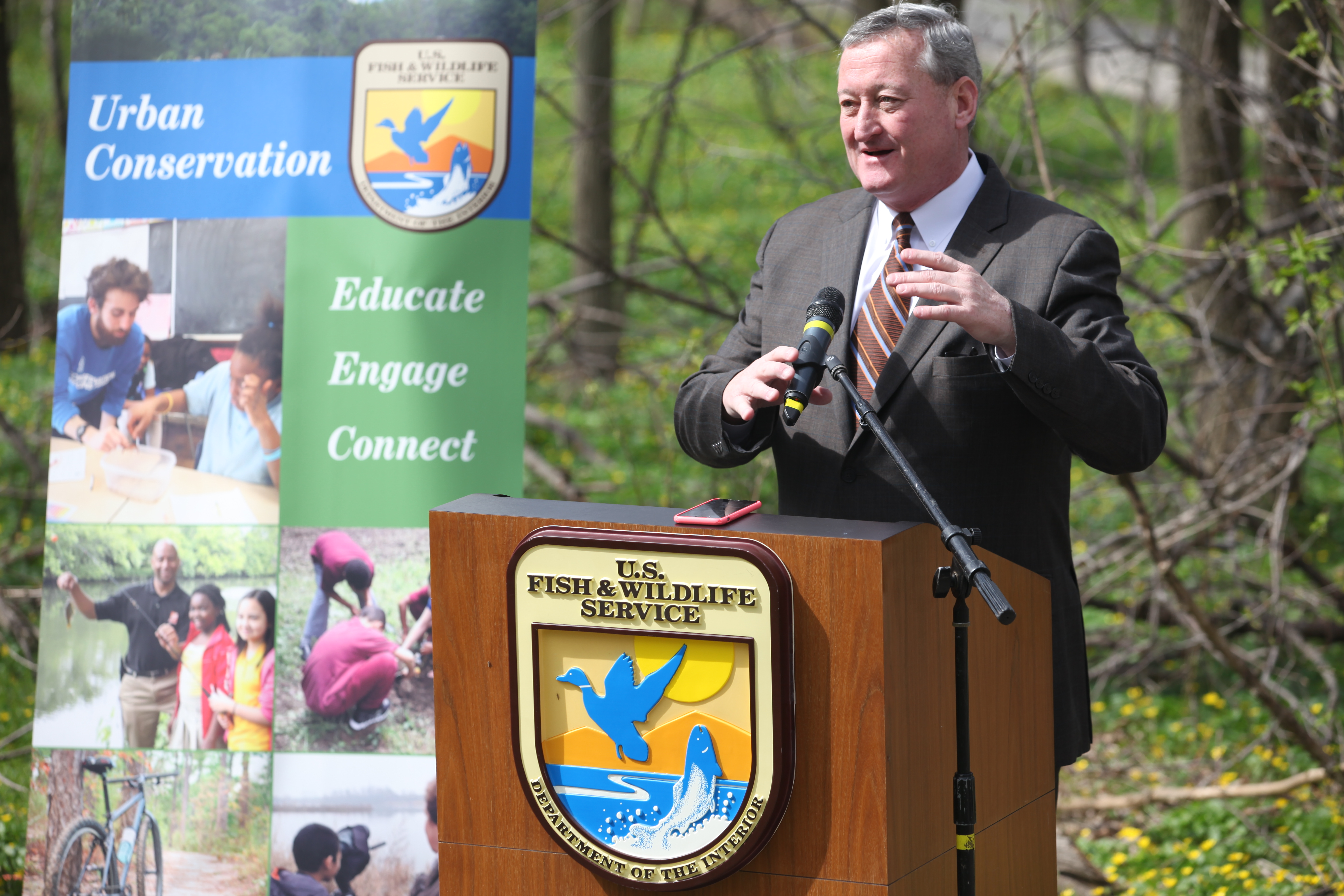 Photo credit: Greg Thompson/U.S. Fish and Wildlife Service